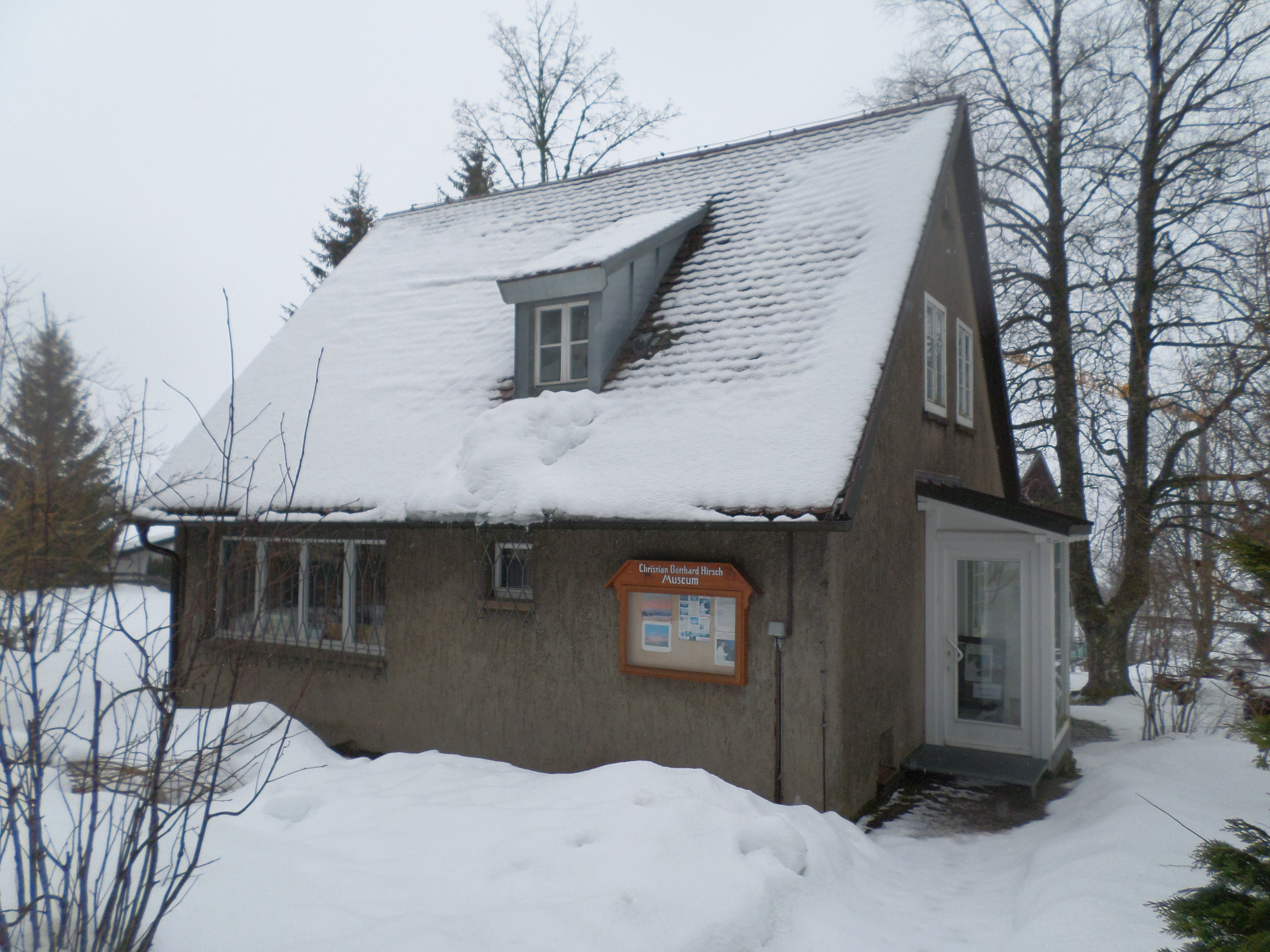 Christian Gotthard Hirsch Museum, Höchenschwand, Waldshut, Baden-Württemberg, Germany